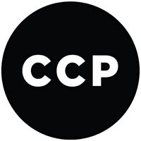 Center for Creative Photography logo